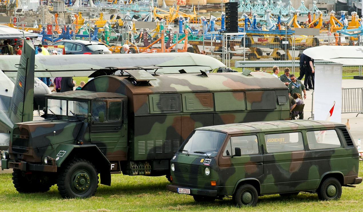 Ex-Bundeswehr vehicles.